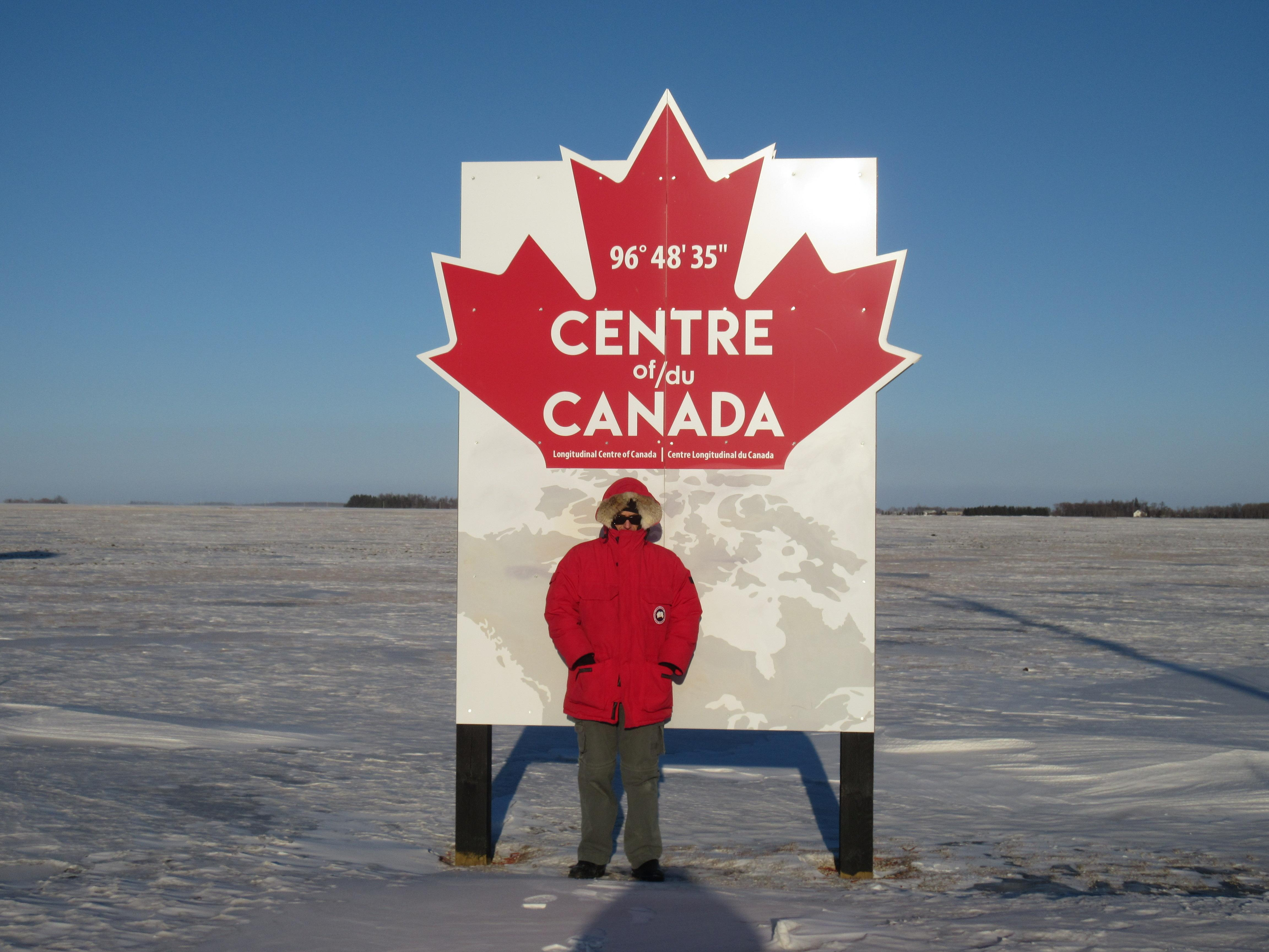 18 C and windy, at the Centre of Canada February 11, 2018. This sign marks the mid line between the most easterly and westerly points of Canada. It is located on the Trans Canada Highway a few minutes east of Winnipeg.